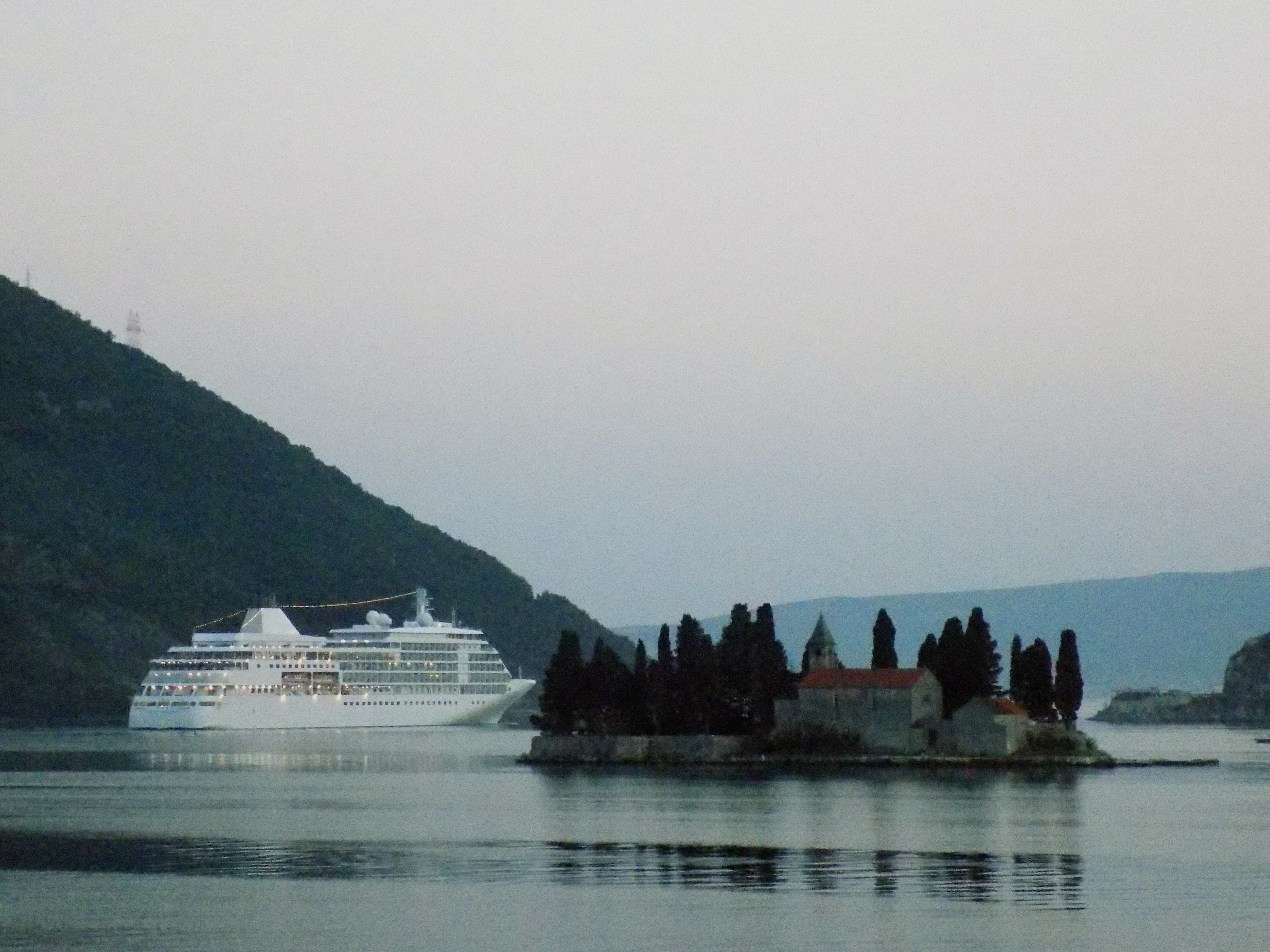 The Silver Whisper passes by the island of St. George while leaving the Bay of Kotor